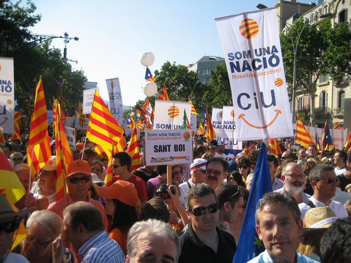 manifestacion in barcelona 10 july 2010